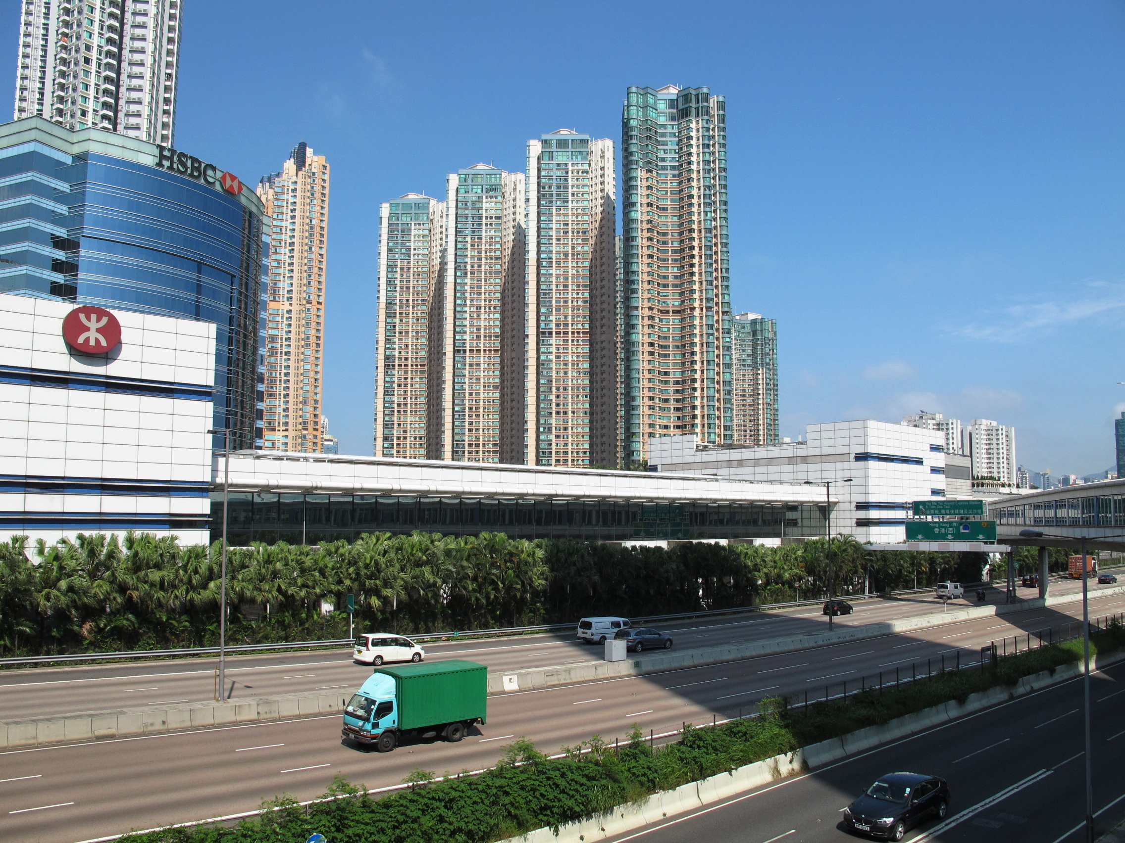 Olympic Station 奧運站